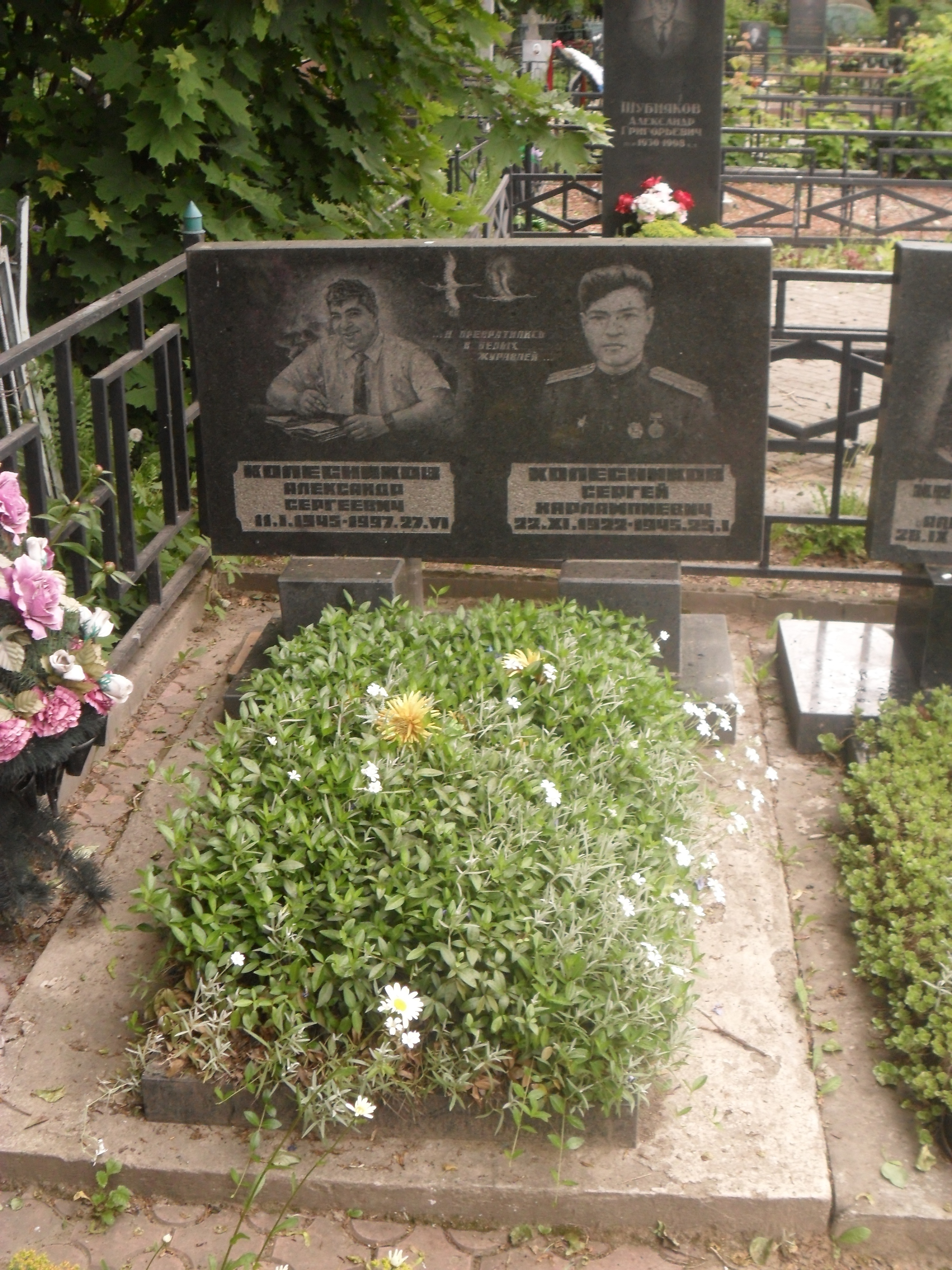 Tomb of Smolensk city council deputy Alexander Kolesnikov, a victim of assassination, the Fraternal Cemetery in Smolensk.